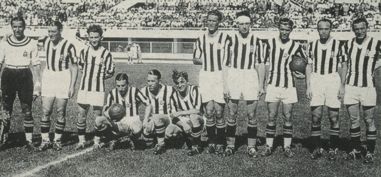 A line-up of F.B.C. Juventus in the 1933–34 season, posing inside the "Benito Mussolini" Municipal Stadium in Turin (Italy). From left to right: G. Combi, U. Caligaris, P. Sernagiotto "Ministrinho", R. Orsi, V. Rosetta (captain), R. Cesarini, G. Varglien (II), L. Bertolini, F. Borel (II), G. Ferrari, M. Varglien (I).